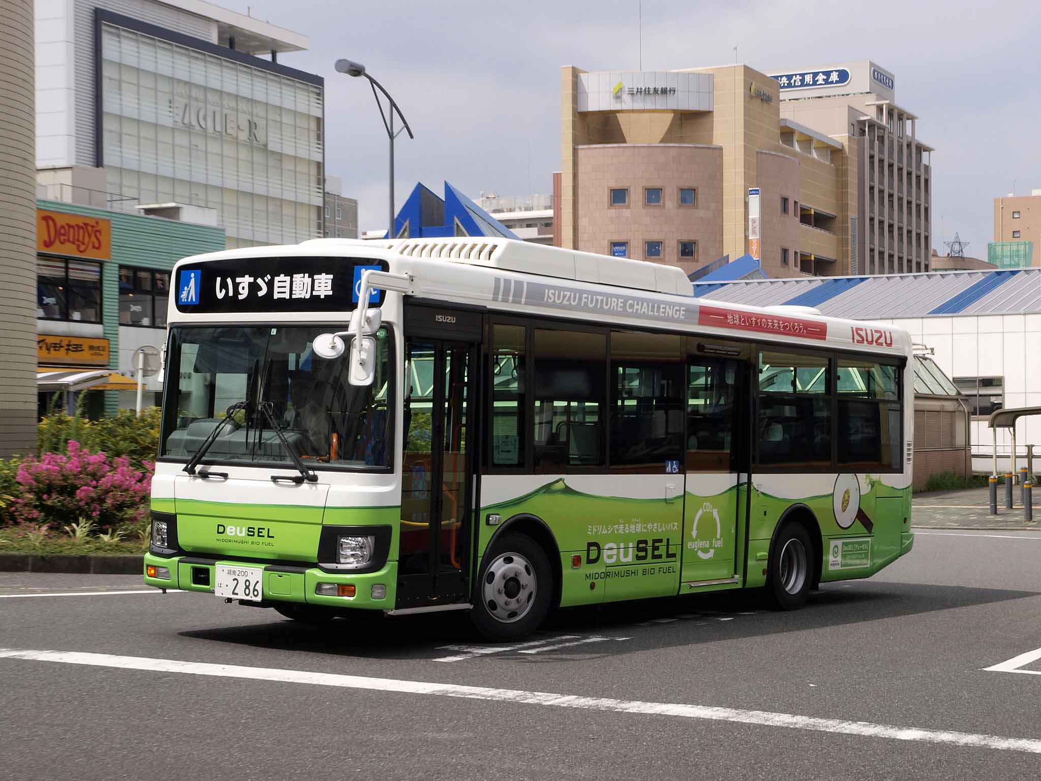 Fleet of DeuSEL Demonstrastor: bio fuel from euglena, as shuttle bus for Isuzu Motors Fujisawa plant. Model: Isuzu Erga Mio SKG-LR290J2 Lisense plate: KNN200 HA0286 Place: Shonandai Station, Fujisawa City, Kanagawa Japan